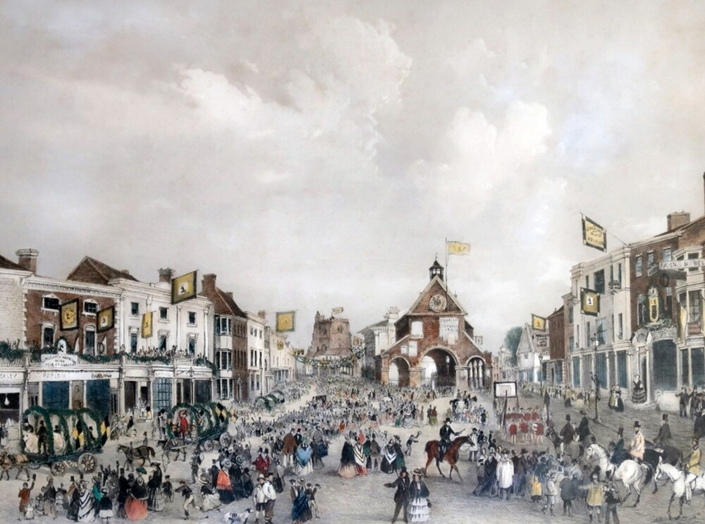 tinted engraving showing Newport High Street in 1857 (original title not specified by source) by Henry Lark Pratt, depicting celebrations at the time of the coming of age of Thomas Fletcher Fenton Boughey on 25 April 1857. For a full description, see source.